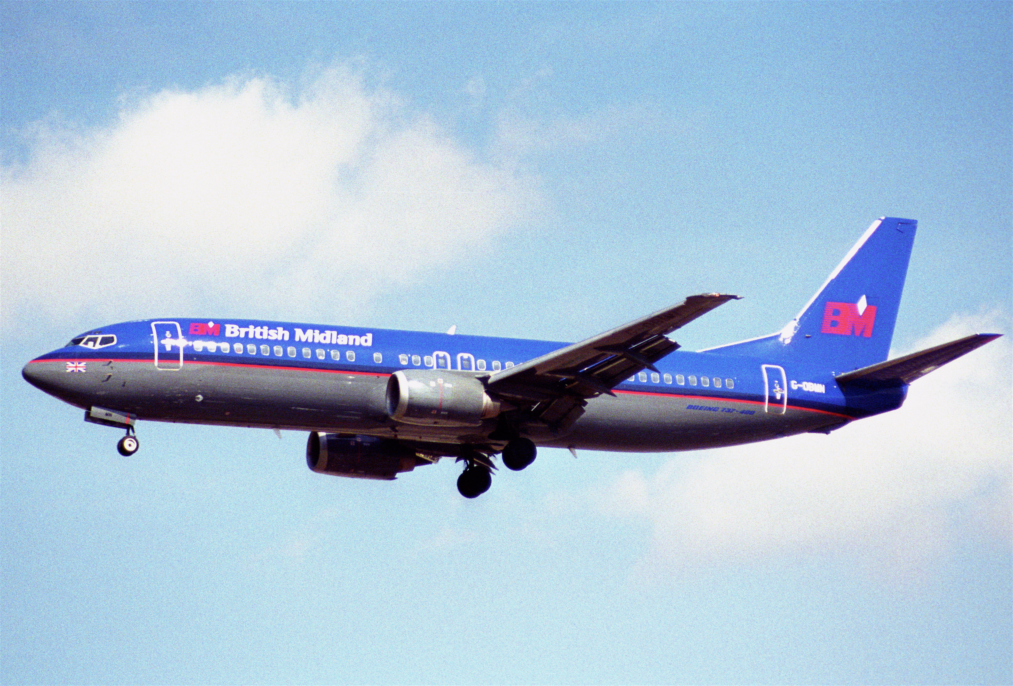 This Boeing 747-46B took its first flight on January 23, 1989...(c/n 24123/ 1663) 24/04/1989 Novair G-BOPJ 18/05/1990 British Midland Airways G-BOPJ 05/11/1991 British Midland Airways G-OBMN 19/12/1997 Futura International EC-GRX 12/02/2005 Lionair PK-LII